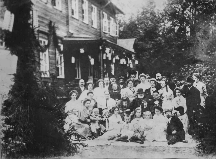 Hans Bernhard and his family during the celebrations of the "Golden" wedding.